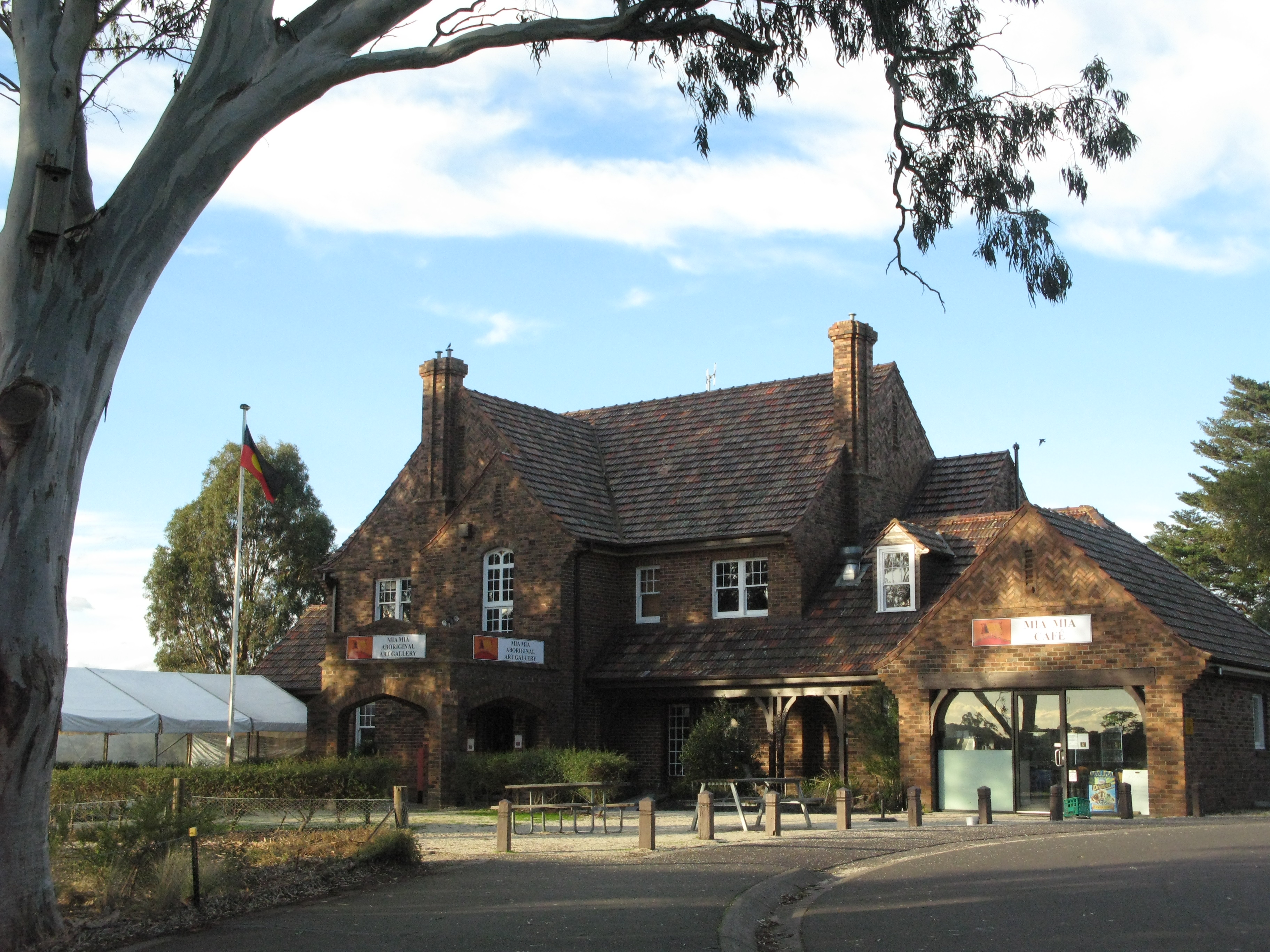 The western side of the Manor House in Westerfolds Park, Melbourne, Australia.